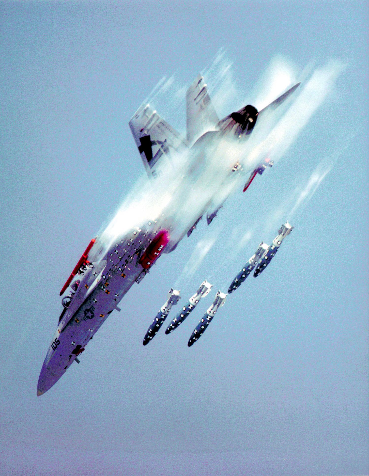 020700-N-1272P-001Naval Air Station, Patuxent River, Md. (July 2002) --An F/A-18 “Hornet” from Air Test and Evaluation Squadron Two Three (VX-23) releases MK-83 1000 pound bombs during a series of Advanced Targeting Forward Looking Infrared (ATFLIR) adjacent stores release tests over the Atlantic Test Range. Tests are designed to evaluate the safe separation of various weapons when released adjacent to the ATFLIR system on the F/A-18C/D strike-fighter aircraft. U.S. Navy photo by Vernon Pugh. (RELEASED)